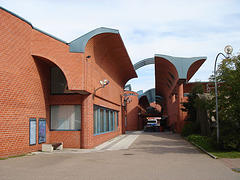 Hervanta Community Center in Tampere, Finland, designed by architects Raili and Reima Pietilä